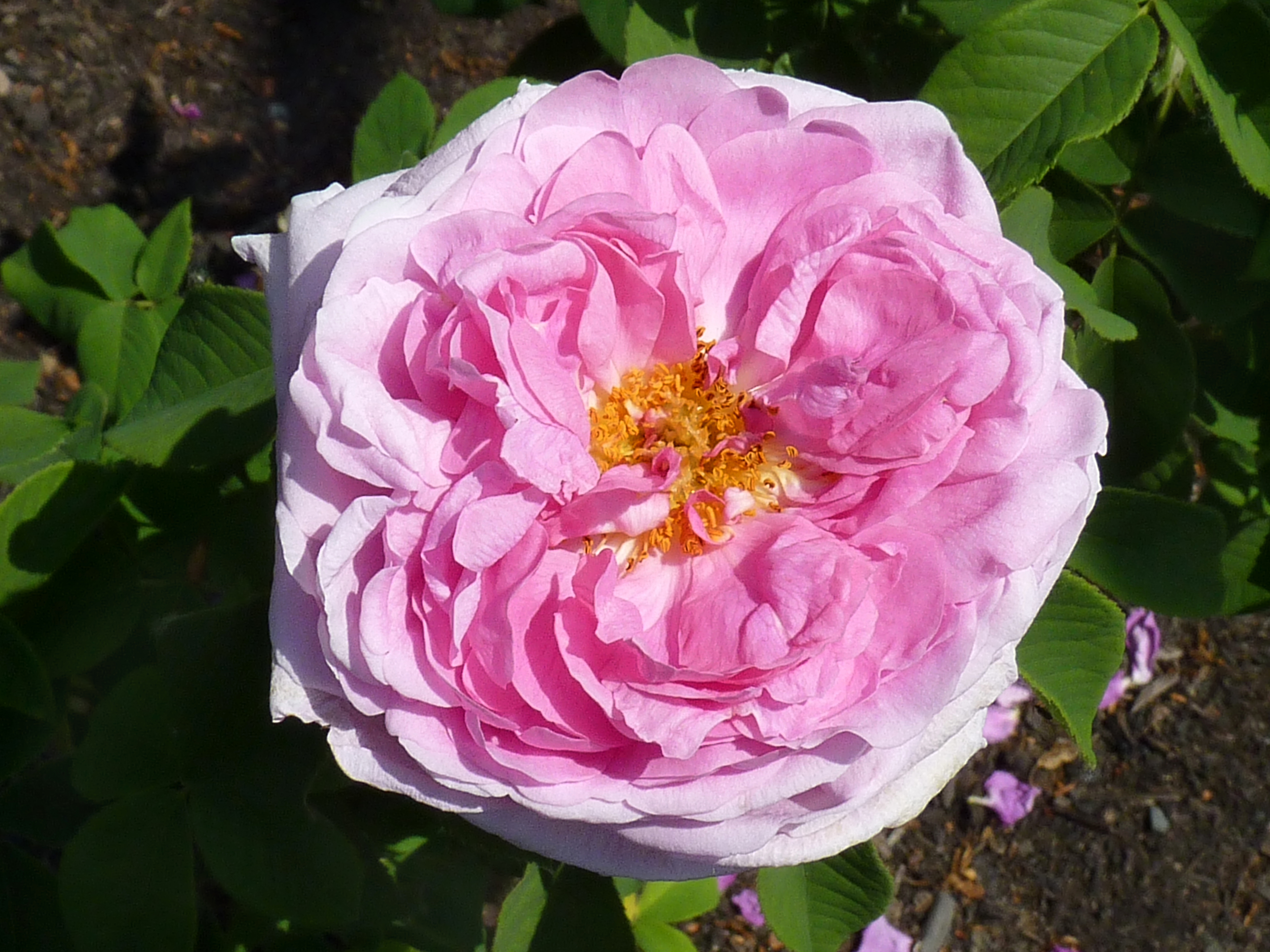 Rosa 'Comte de Chambord' (Moreau - Robert, 1860), in the international rose garden of Kortrijk, Belgium.